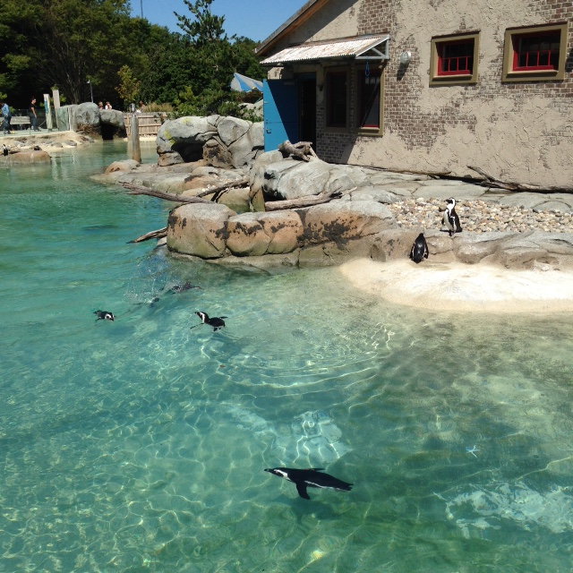 The Penguin Coast Exhibit at the Maryland Zoo in Baltimore